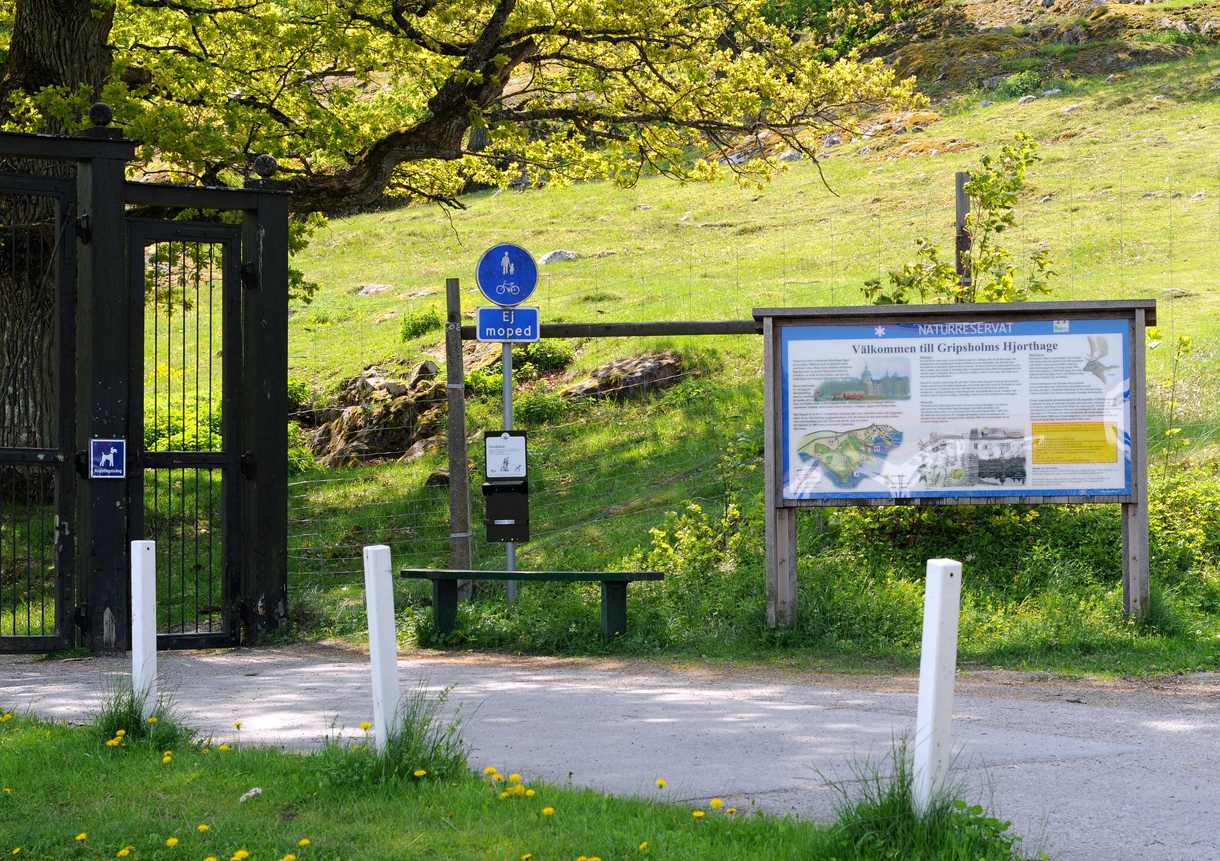 Hjorthagens naturreservat i Mariefred